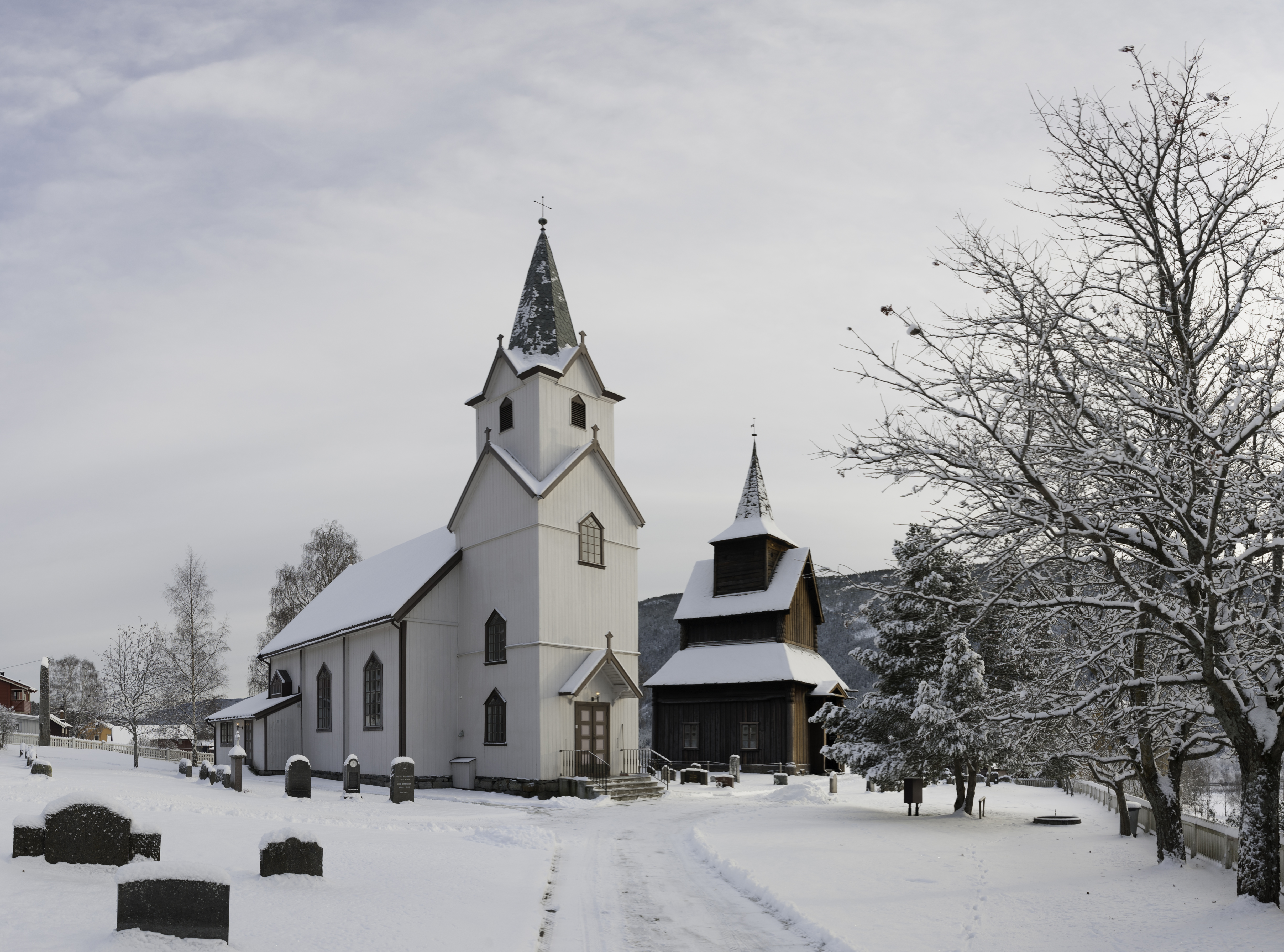 Torpo Church and Stave Church in Torpo, Buskerud, Norway.